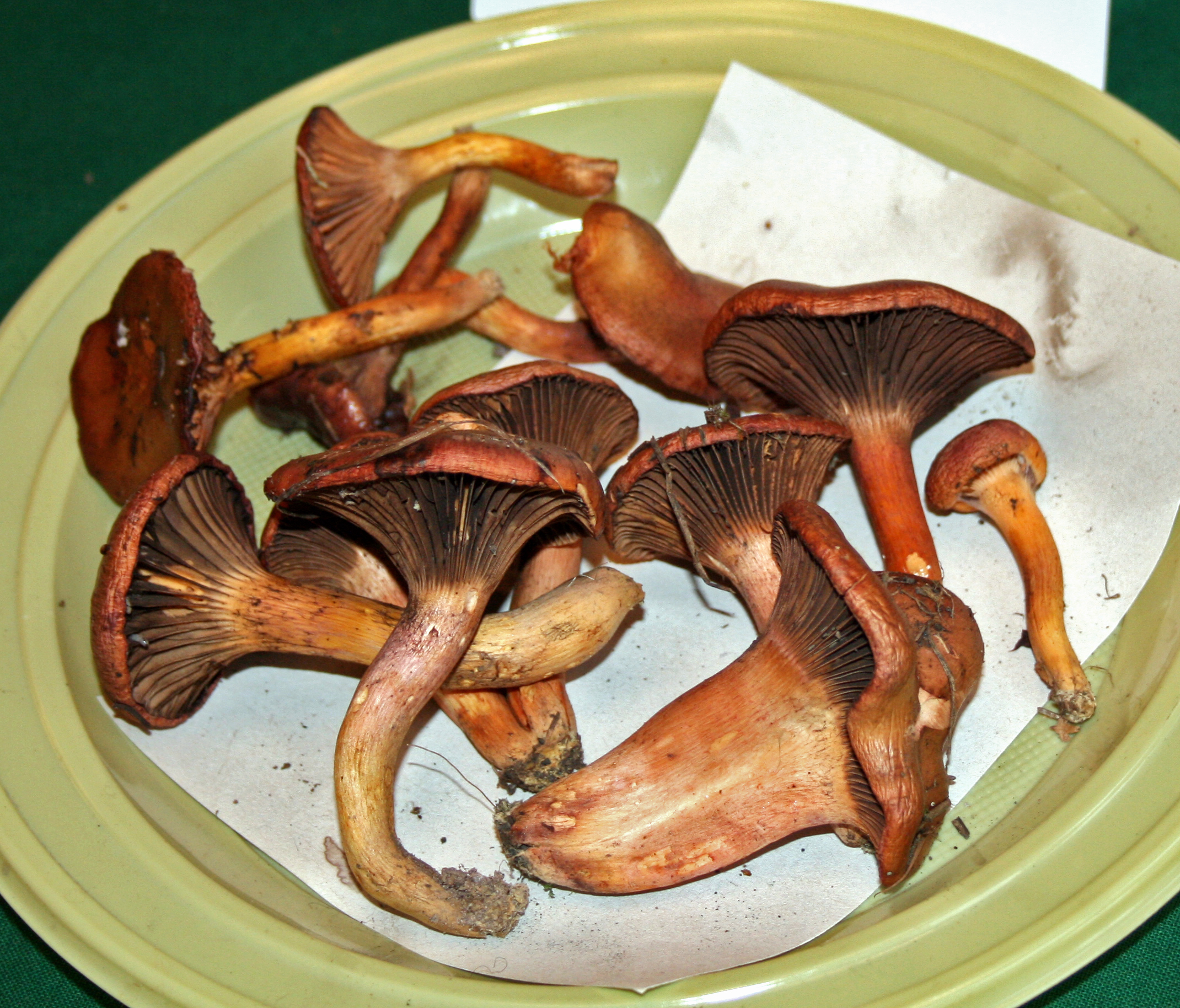 Chroogomphus rutilus Chroogomphus rutilus on Prague international mushroom exhibition 2008, Czech Republic